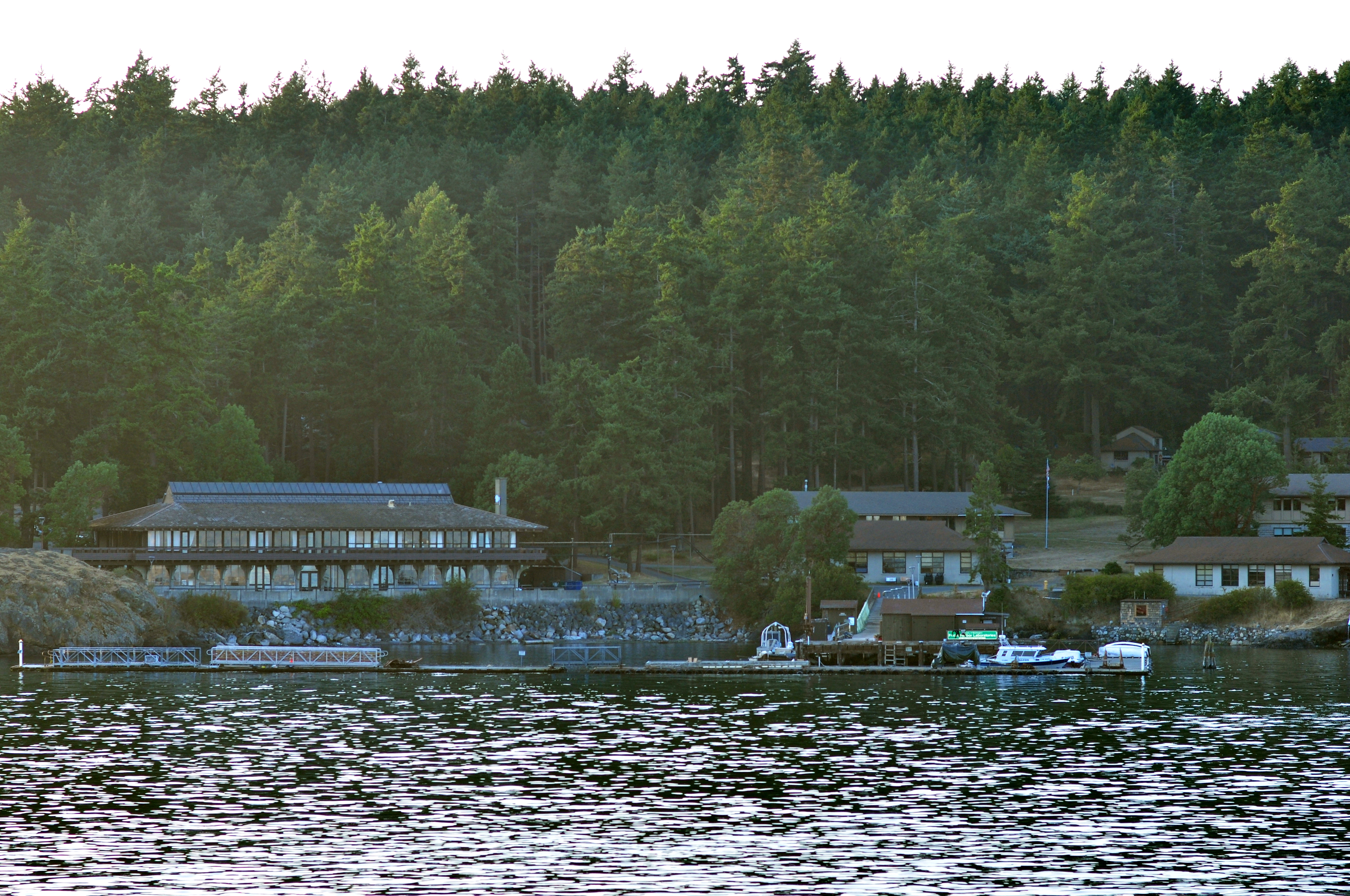 University of Washington Friday Harbor Laboratories, Friday Harbor, San Juan Island, Washington, U.S., seen from Washington State Ferry.